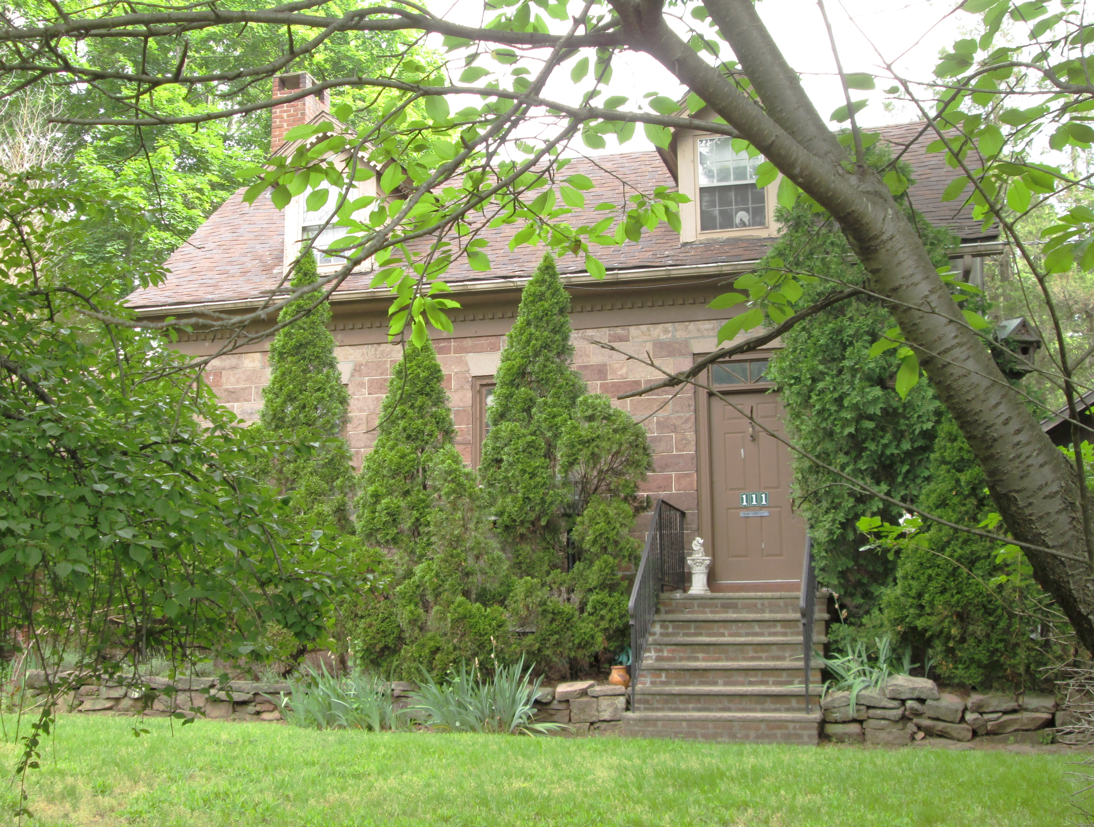 The Blackledge-Gair House at 111 Madison Avenue between Brookside Avenue and Waverly Place in Cresskill, New Jersey is one of the Early Stone Houses of Bergen County, New Jersey, and is listed on the National Register of Historic Places, where its period of significance was given as 1800-1849. In 1861 it was listed as the residence of J.P. Blackledge, and in 1876 as that of Robert Gair. (Source: "Bergen County Stone House Survey: Individual Structure Survey Form"